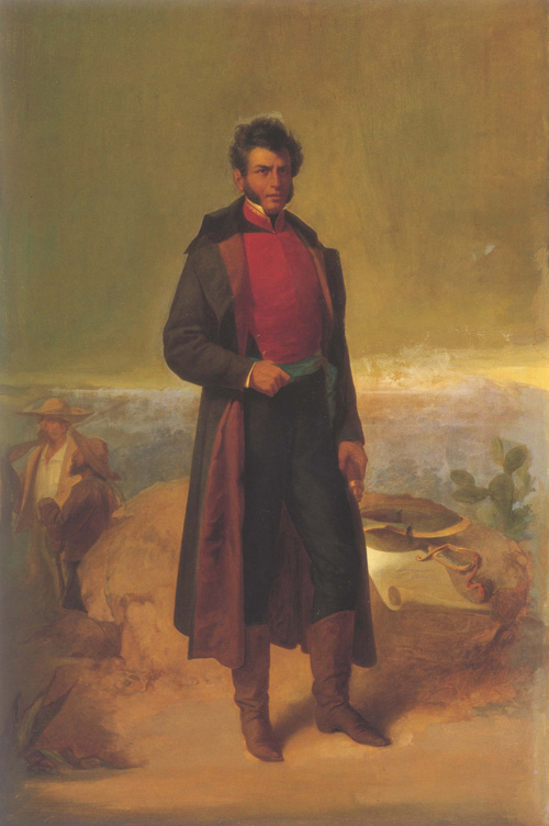 Posthumous portrait of Vicente Guerrero (1782-1831), to be hanged at Iturbide Hall in the Mexican Imperial Palace.